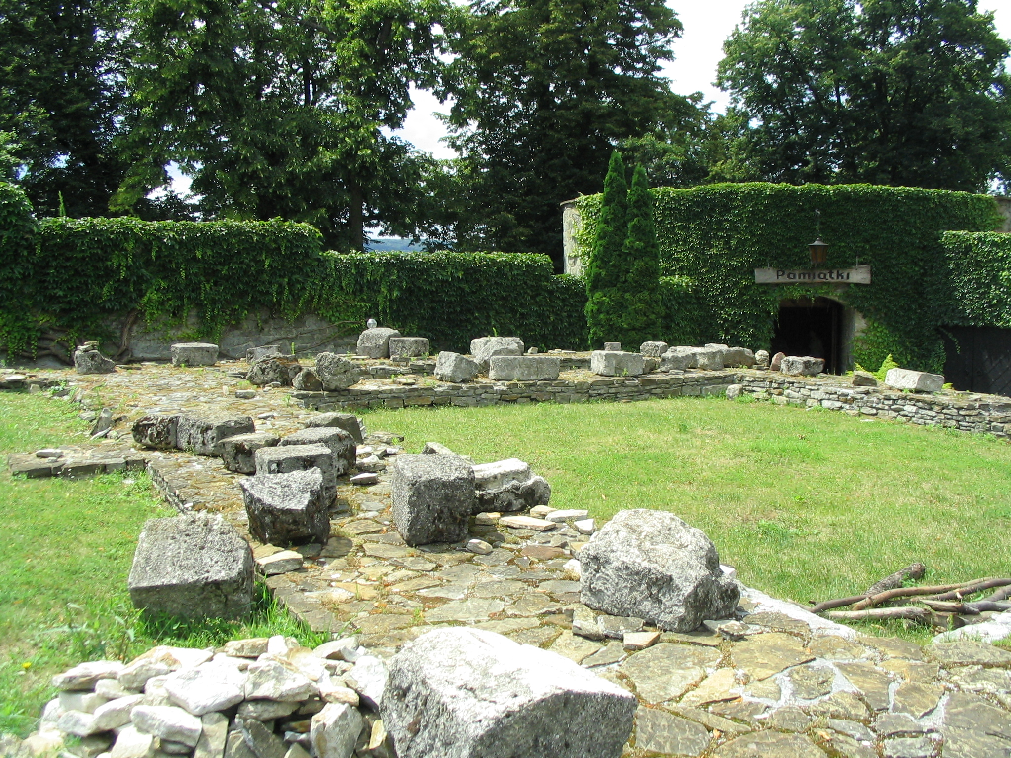 Kazimierzowski Castle in Przemyśl, Poland